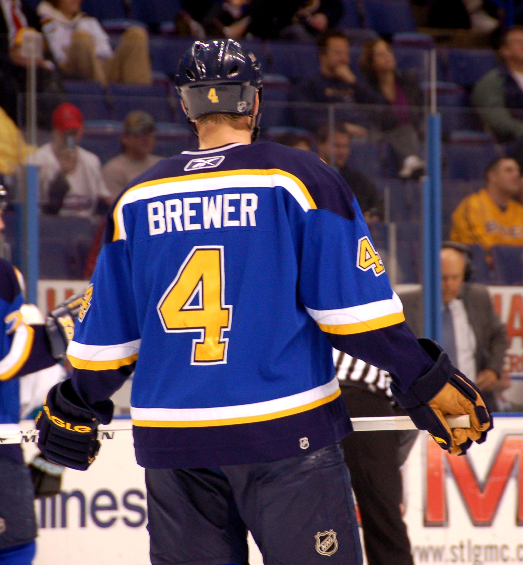 Eric Brewer, St. Louis Blues vs. San Jose Sharks, November 28, 2006